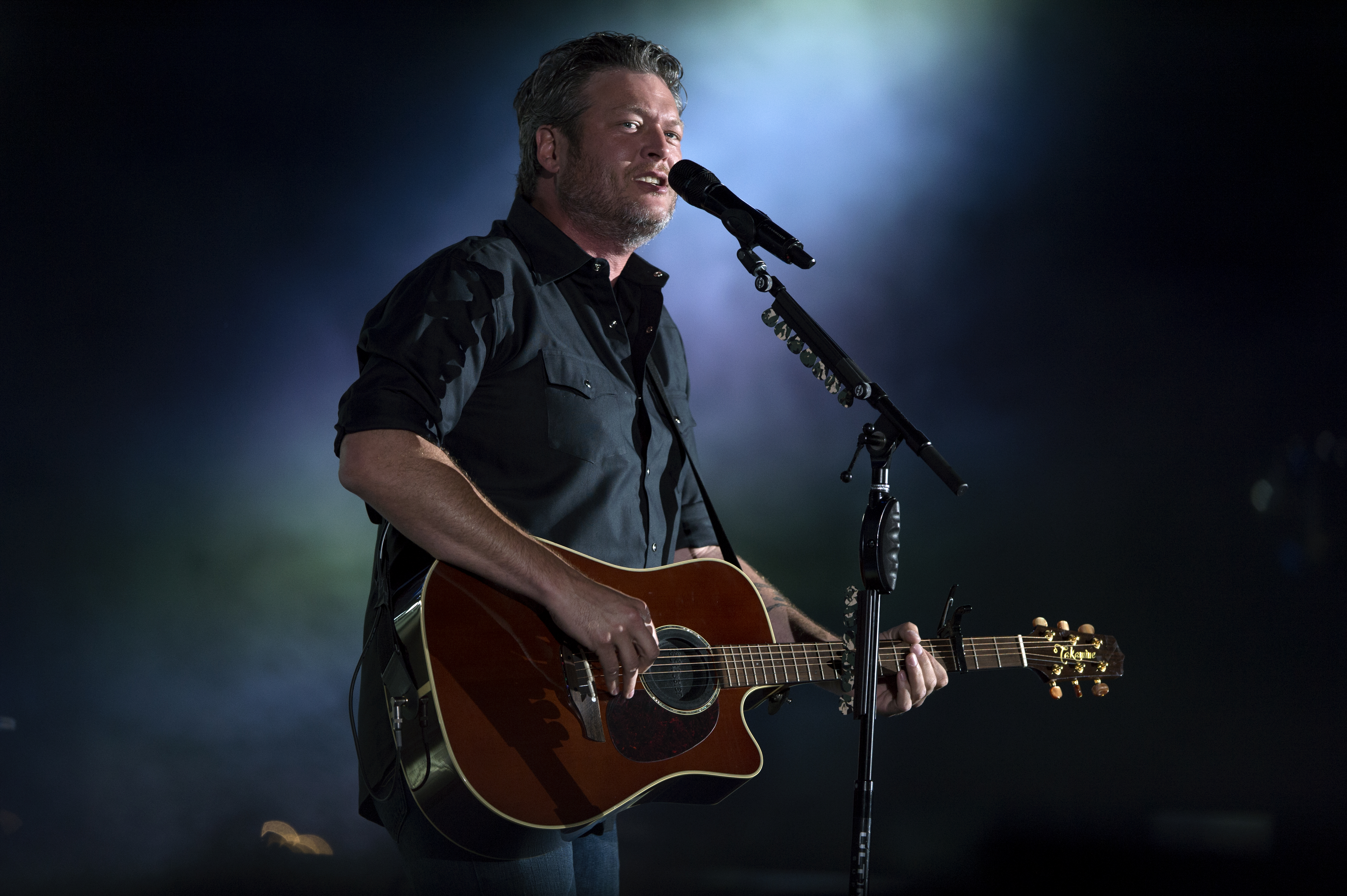 Recording artist Blake Shelton performs during the 2017 Department of Defense Warrior Games opening ceremonies at Soldier Field in Chicago July 1, 2017. The DoD Warrior Games are an annual event allowing wounded, ill and injured service members and veterans to compete in Paralympic-style sports. (DoD photo by EJ Hersom)